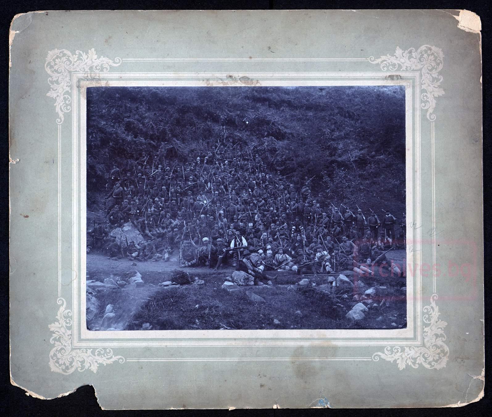 Hristo Chernopeev cheta with Spas Martinov from IMARO, 1903